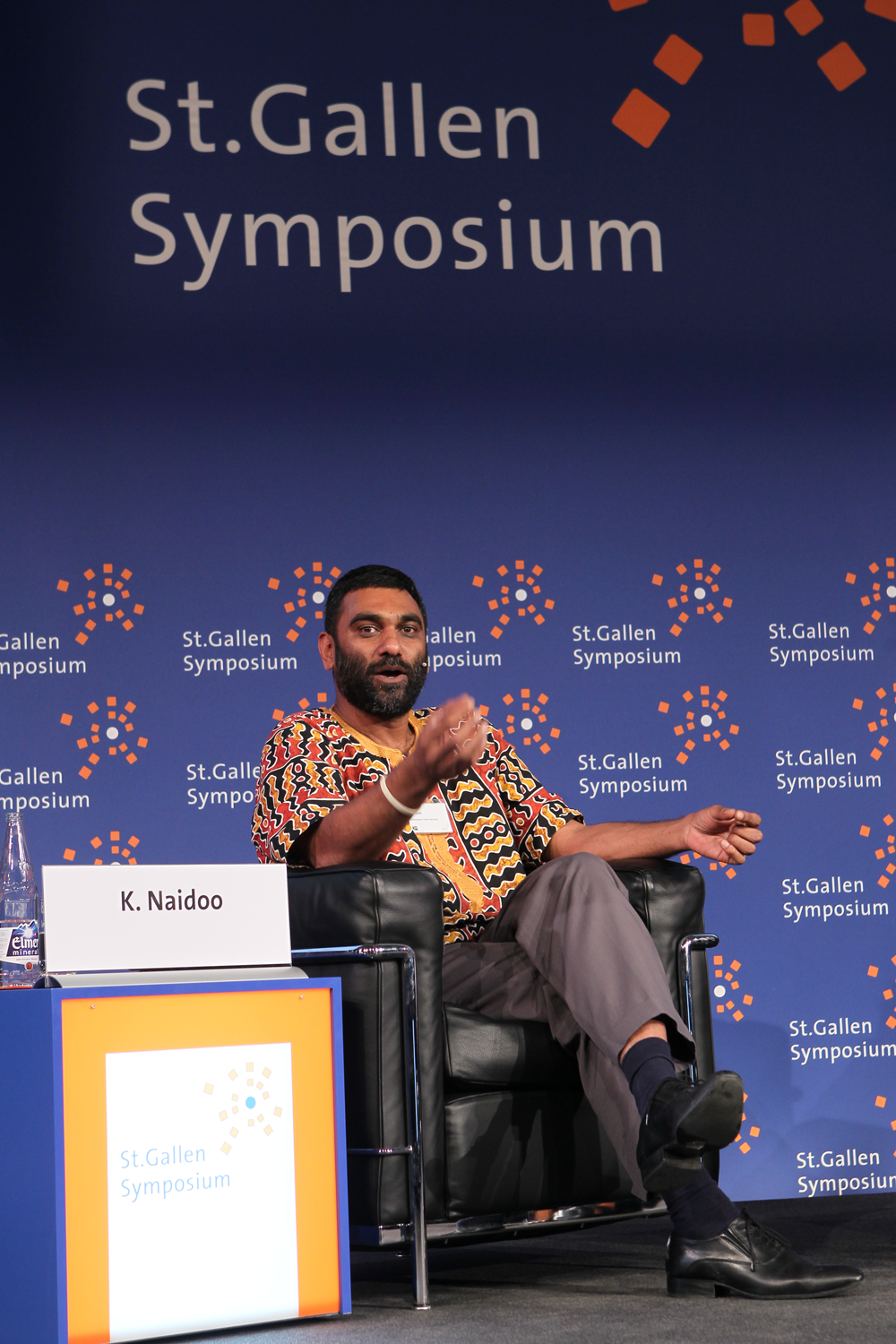 Kumi Naidoo in May 2012 during a plenary session with Thomas Borer at the 42. St. Gallen Symposium at the University of St. Gallen.